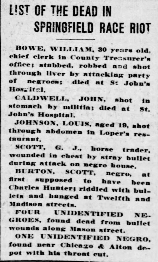 St. Louis Post-Dispatch. 15 Aug 1908.